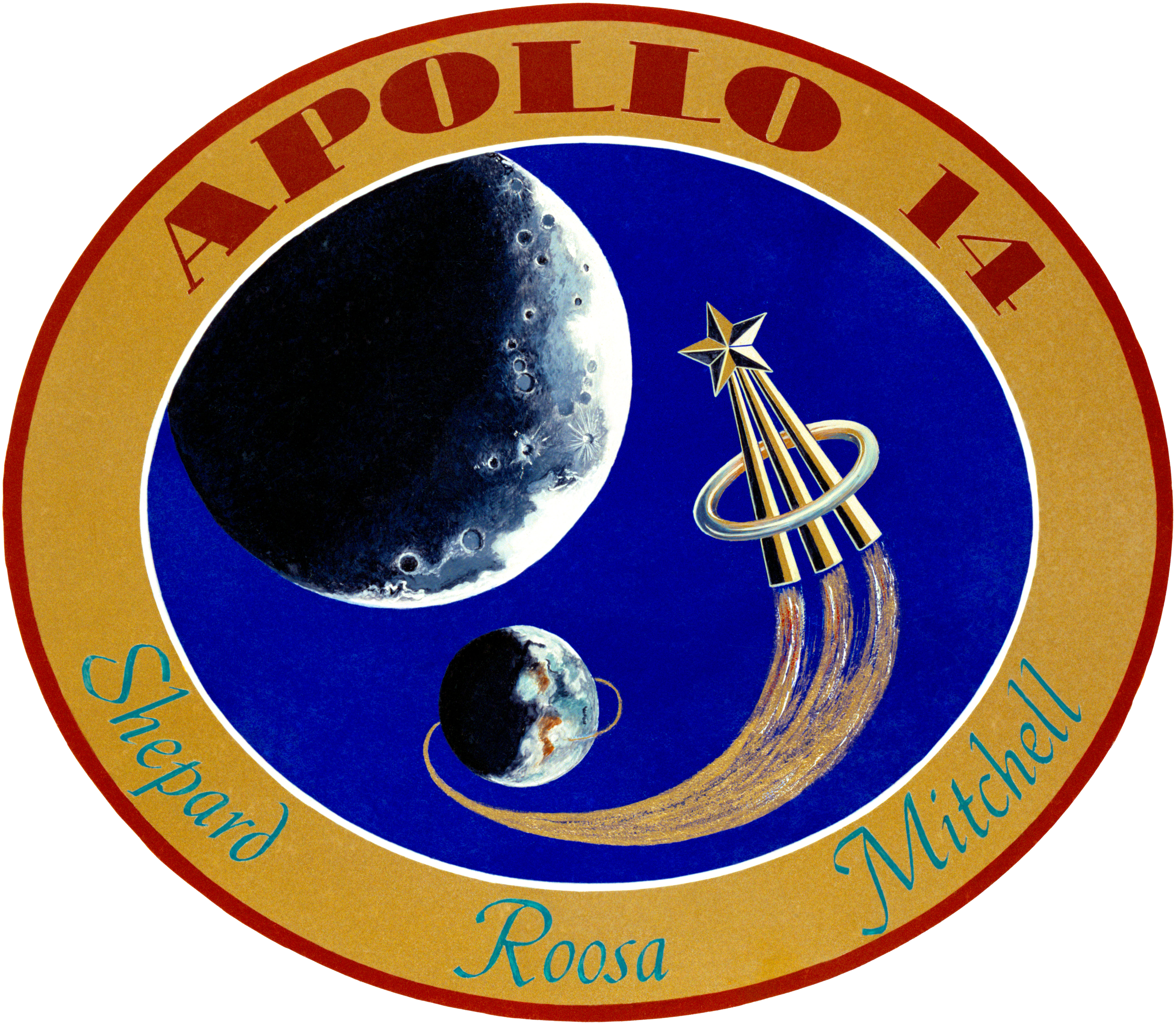 This is the Apollo 14 crew patch designed by astronauts Alan B. Shepard Jr., commander; Stuart A. Roosa, command module pilot; and Edgar D. Mitchell, lunar module pilot. It features the astronaut lapel pin approaching the Moon and leaving a comet trail from the liftoff point on Earth. The pin design was adopted by the astronaut corps several years ago. Astronauts who have not yet flown in space wear silver pins. Those who have flown wear gold pins.